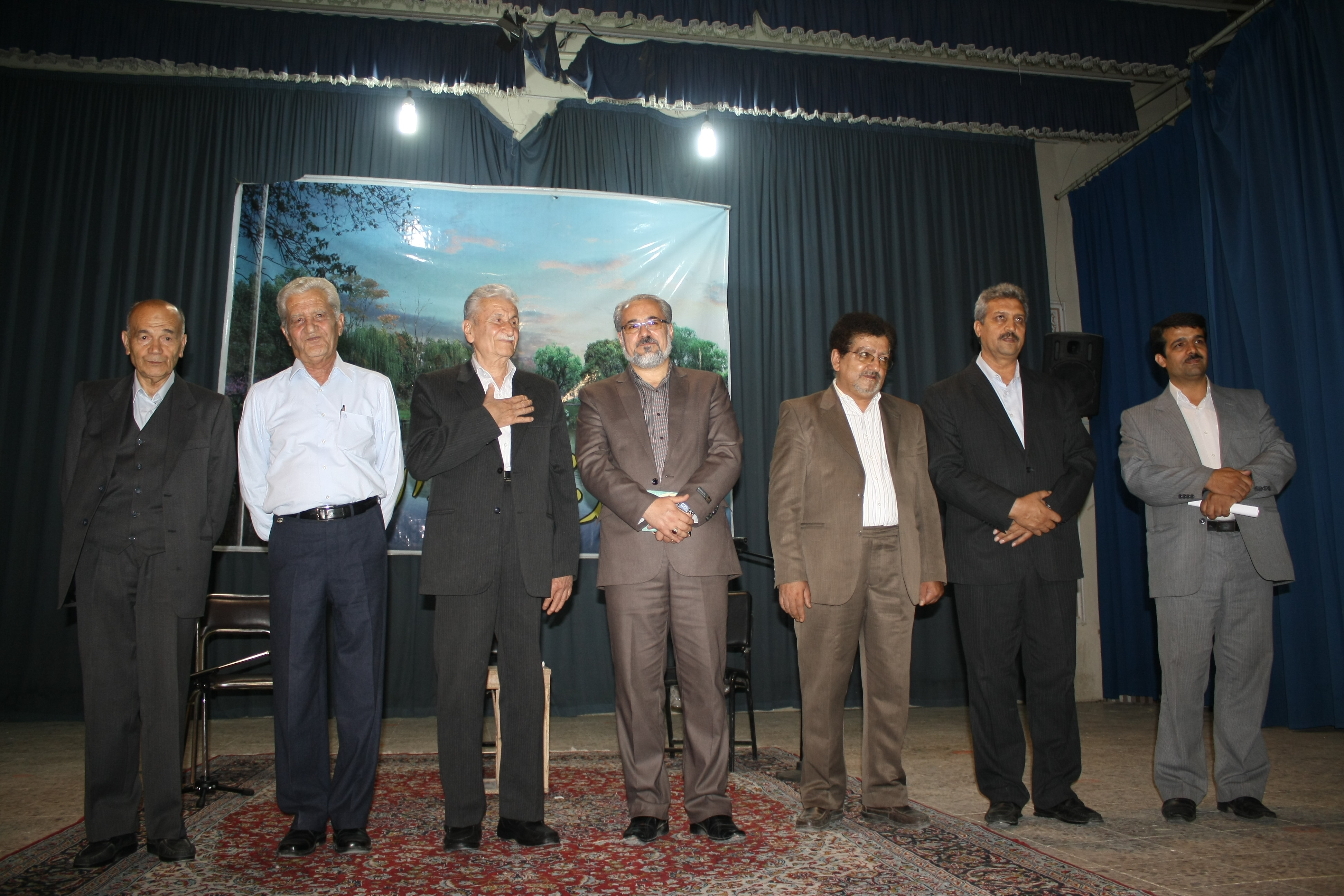 chand modir